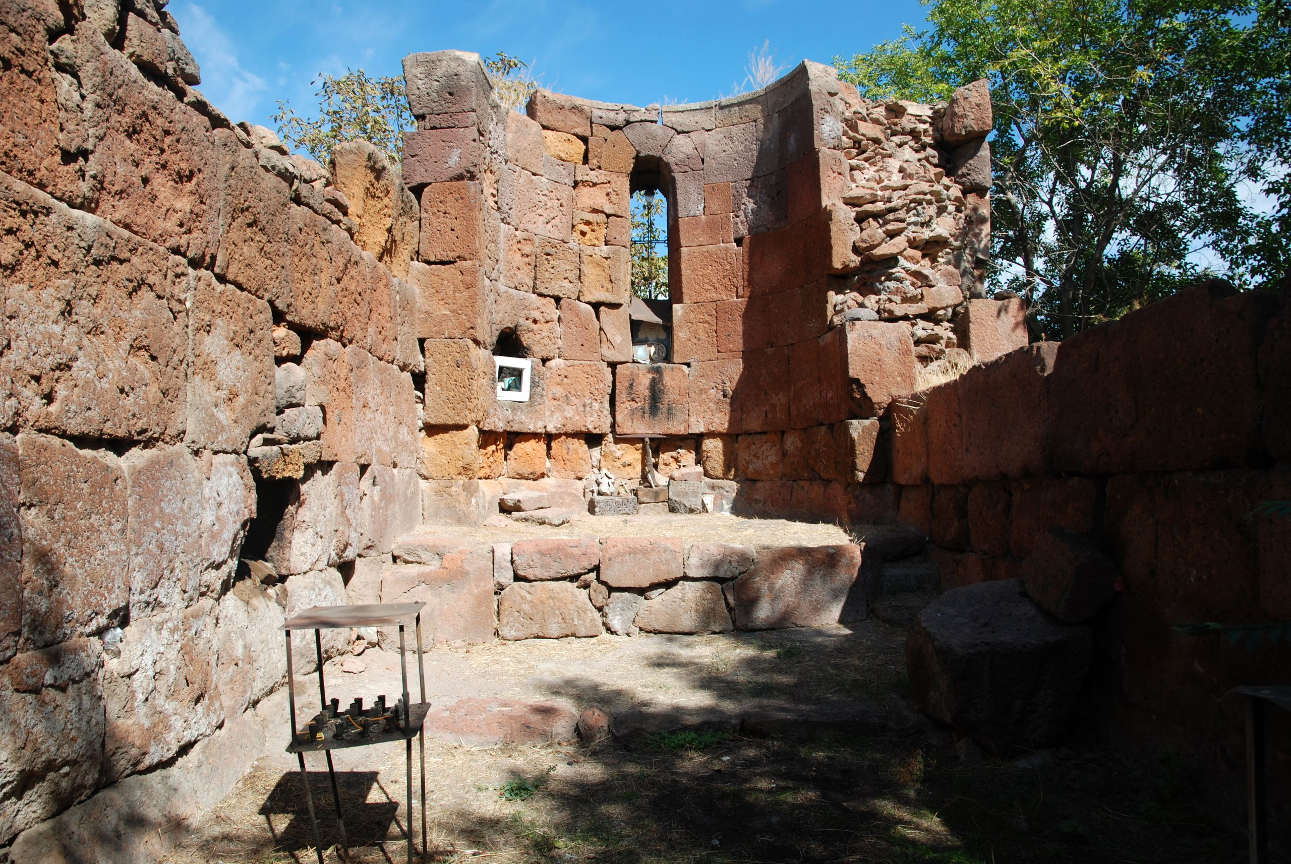 Agarak, Surb Hovhanes church in village center